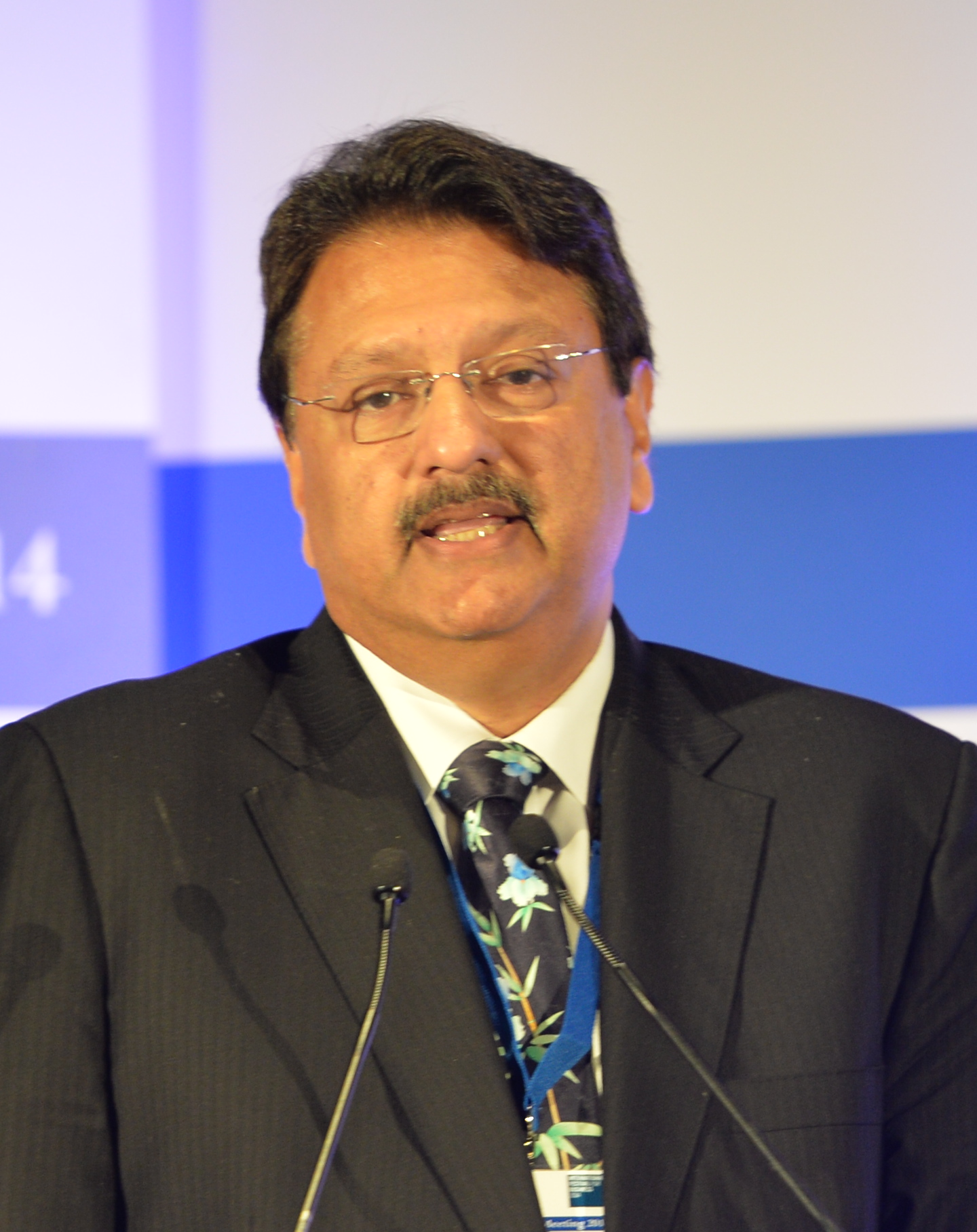 Ajay Piramal, Chairman, Piramal Group, speaking at the 2014 Horasis Global India Business Meeting.